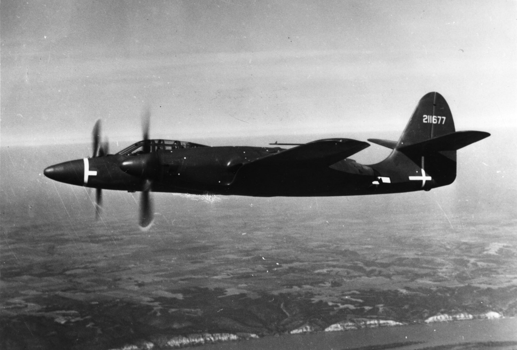 The experimental U.S. Army Air Forces McDonnell XP-67 Bat (s/n 42-11677) in flight. This aircraft was damaged beyond repair by a midair fire in September 1944.